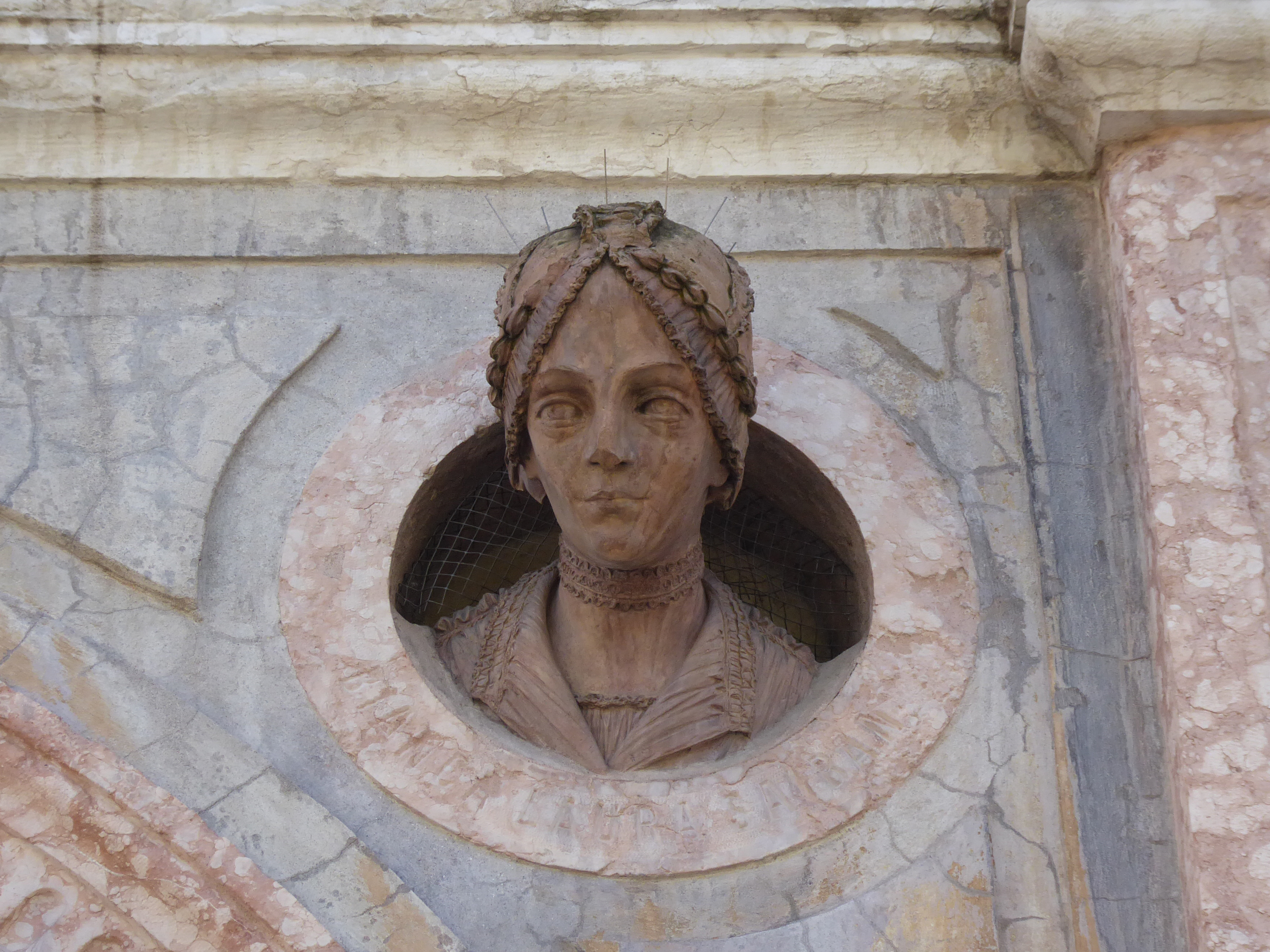 Bust of Bianca Laura Saibante on the facade of Palazzo Ranzi, in Trento, by Andrea Malfatti